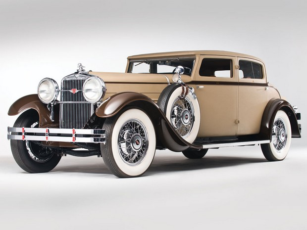 1930 Stutz SV16 Monte Carlo Sport Sedan by Weymann of America